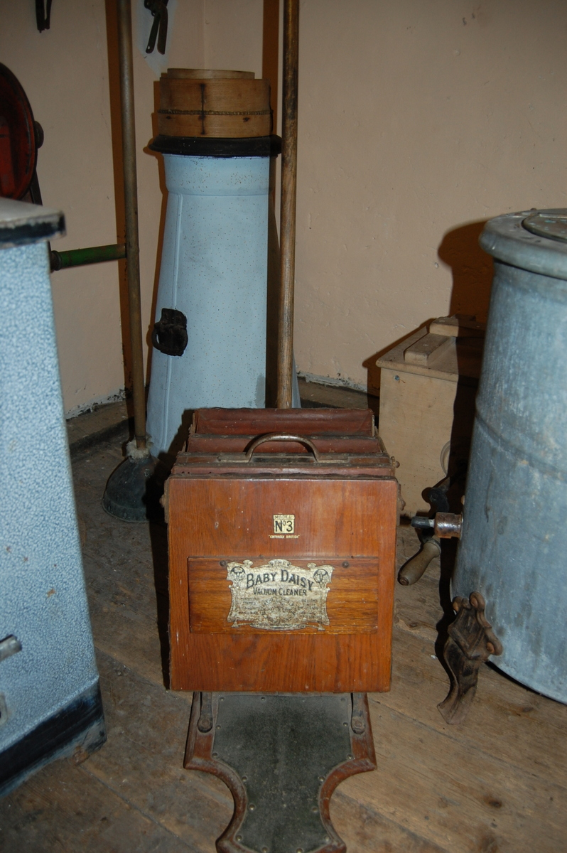 "The baby daisy was a manual powered device so there was no need for electricity or fear of electrocution. The Baby Daisy required two people to operate it. The first person provided the power by standing on the base of the bellows and moving it back a forth with the aid of a broomstick in the holder on the front. This movement was a key design feature as it has a double connected bellows, meaning that movement in either direction created a vacuum. The second operator would use the attached hose to clean the house. Dust and dirt was collected in a cotton bag within the machine. While the vacuum required two people to operate and had limited suction power, it was far better than using a broom to clean dust and dirt from carpets and rugs." (Source)